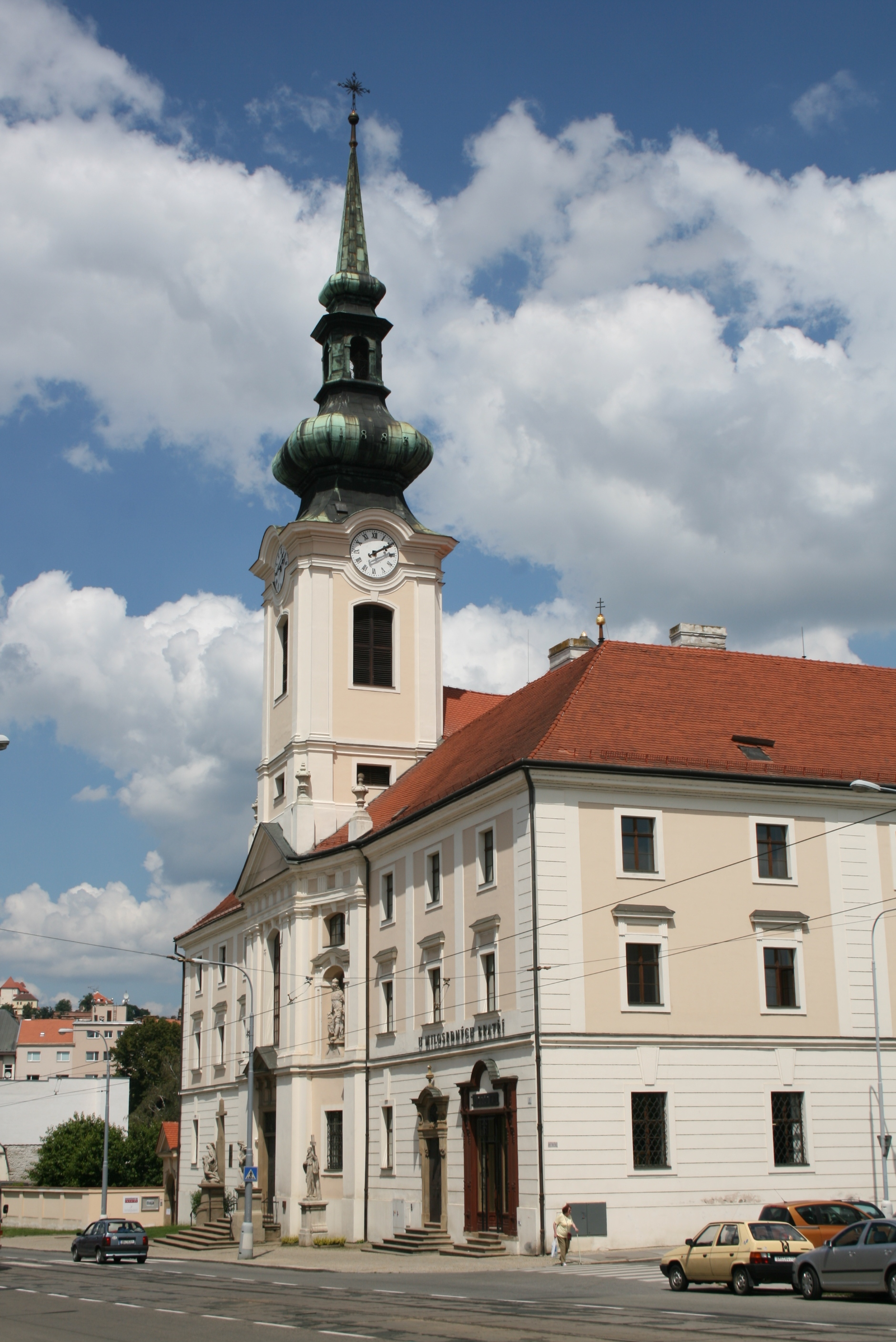 St. Leopold church with Monastery of Brothers Hospitallers of St. John of God in Brno, Czech Republic.